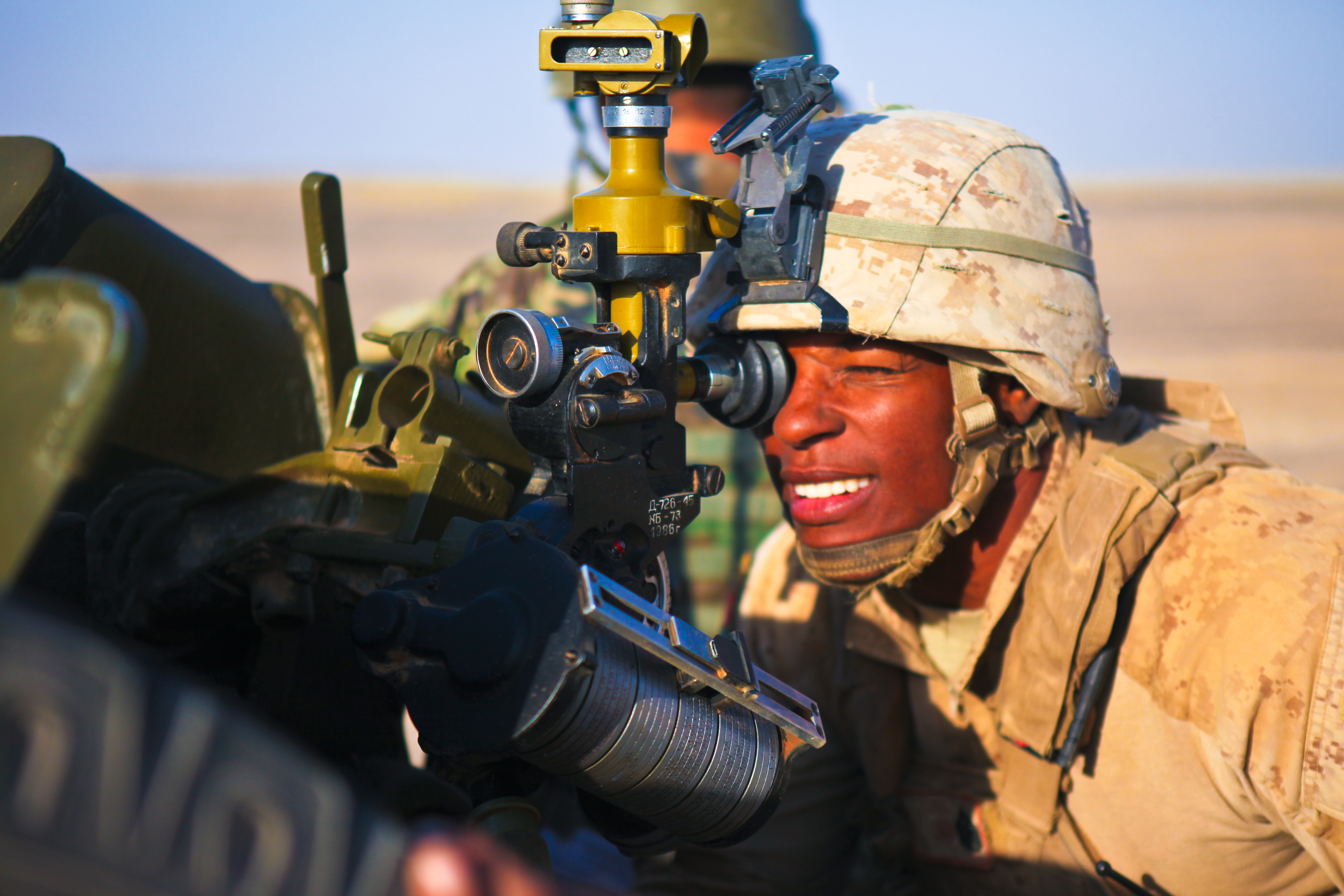 Cleveland native Staff Sgt. Dawud Hakim, a platoon sergeant with Charlie Battery, 1st Battalion, 12th Marine Regiment, looks through the sight of a Soviet-made D30 howitzer during a recent training session with Afghan National Army soldiers. Hakim, a former section chief, said the best part of being a chief was being able to mentor young Marines.